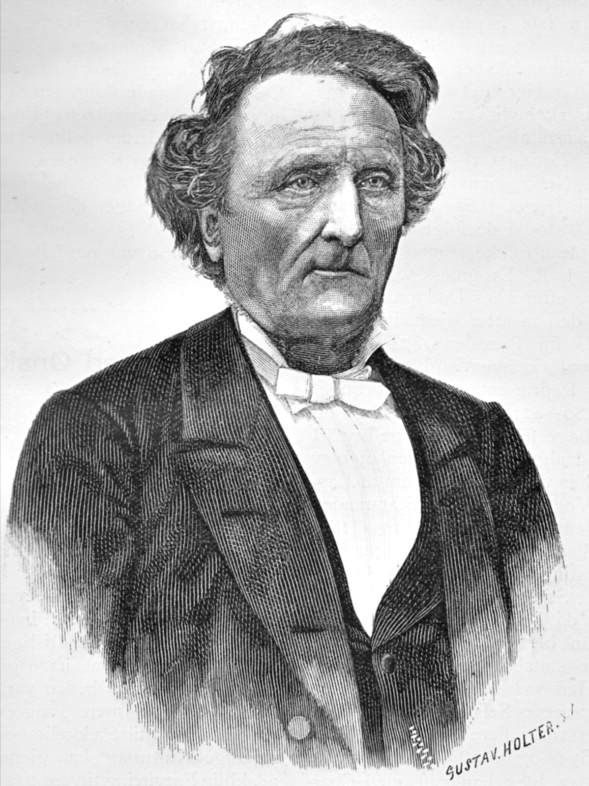 Bernhard Ludvig Essendrop, member of parliament, Norway. Engraving by Gustav Holter (born 16. October 1859 - died 13. June 1940) published 1891 in the journal Skilling-Magazin.